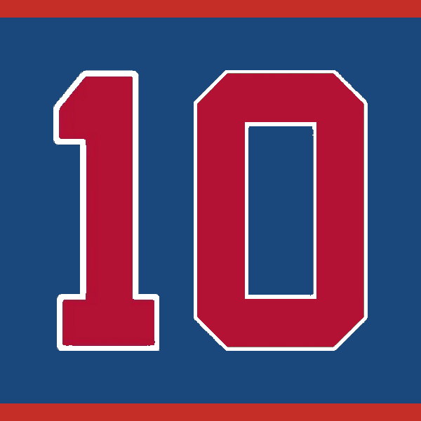 An illustration of Chipper Jones' Retired Braves Number. (this is the first one of these numbers I've made, so it can be replaced later if a better likeness becomes available)